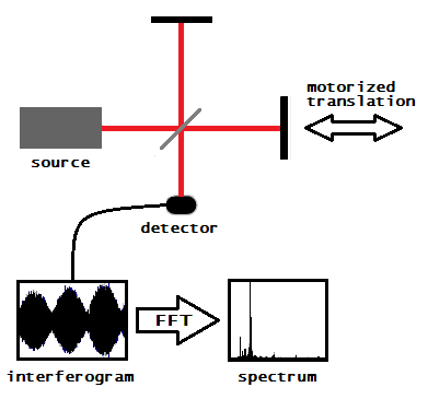 A Fourier transform spectrometer comprises a Michelson interferometer with a movable mirror. A Fourier transform converts the interferogram into the actual spectrum.